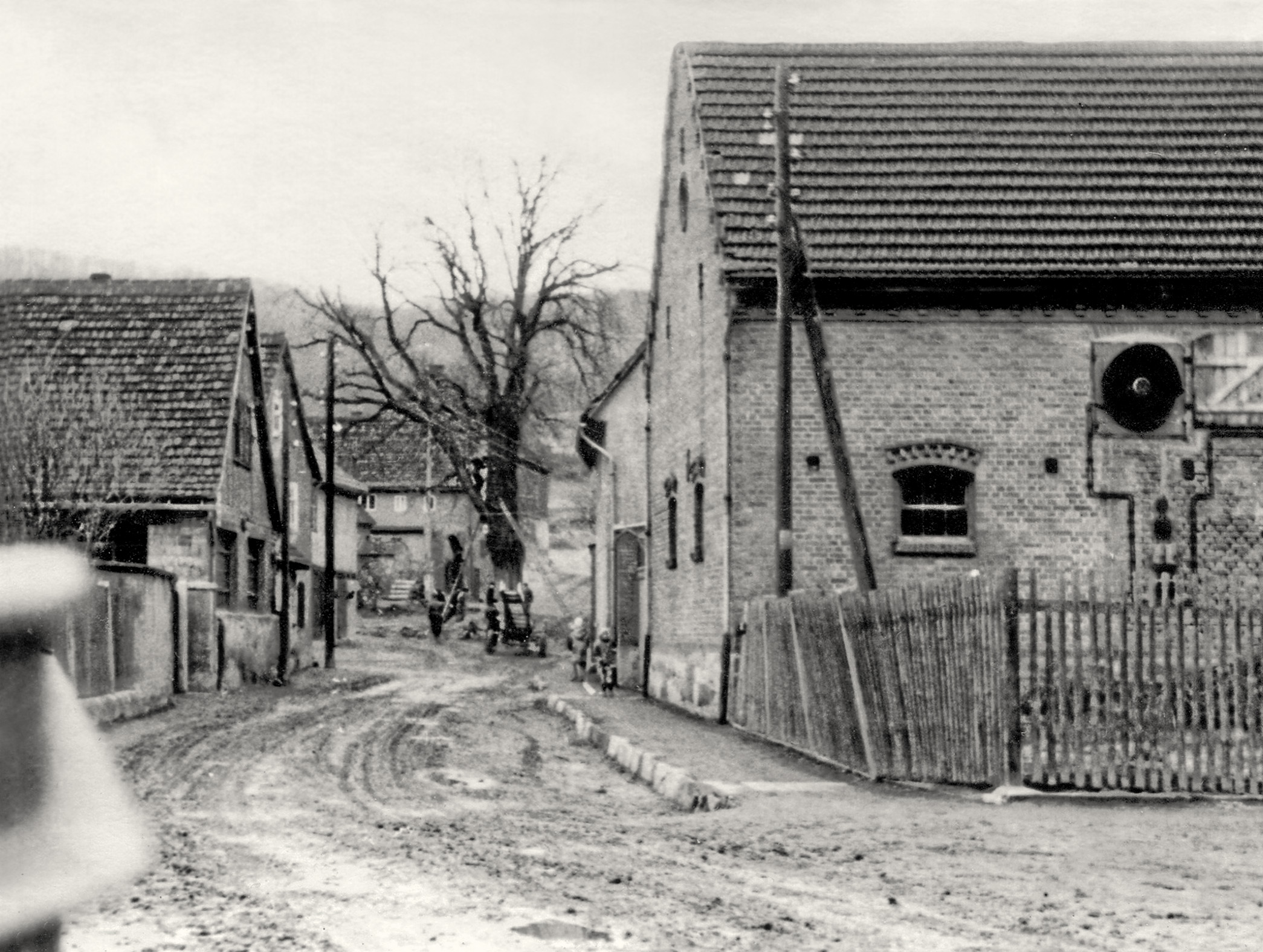 The village center of Löberschütz before the asphalting of the roads.